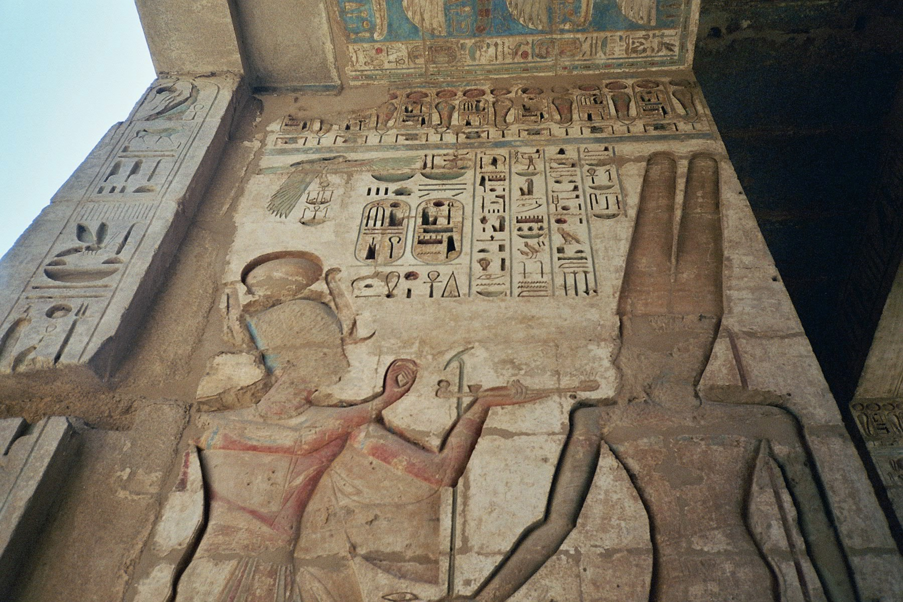 Medinet Habu, Luxor, Egypt